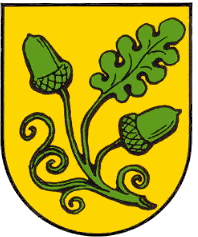 Coat of arms of Kleinniedesheim